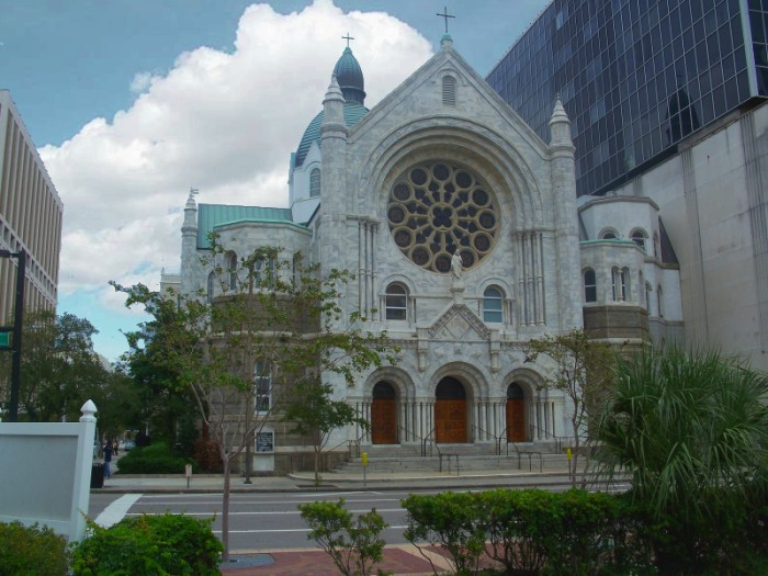 Sacred Heart Church, in downtown Tampa, Florida